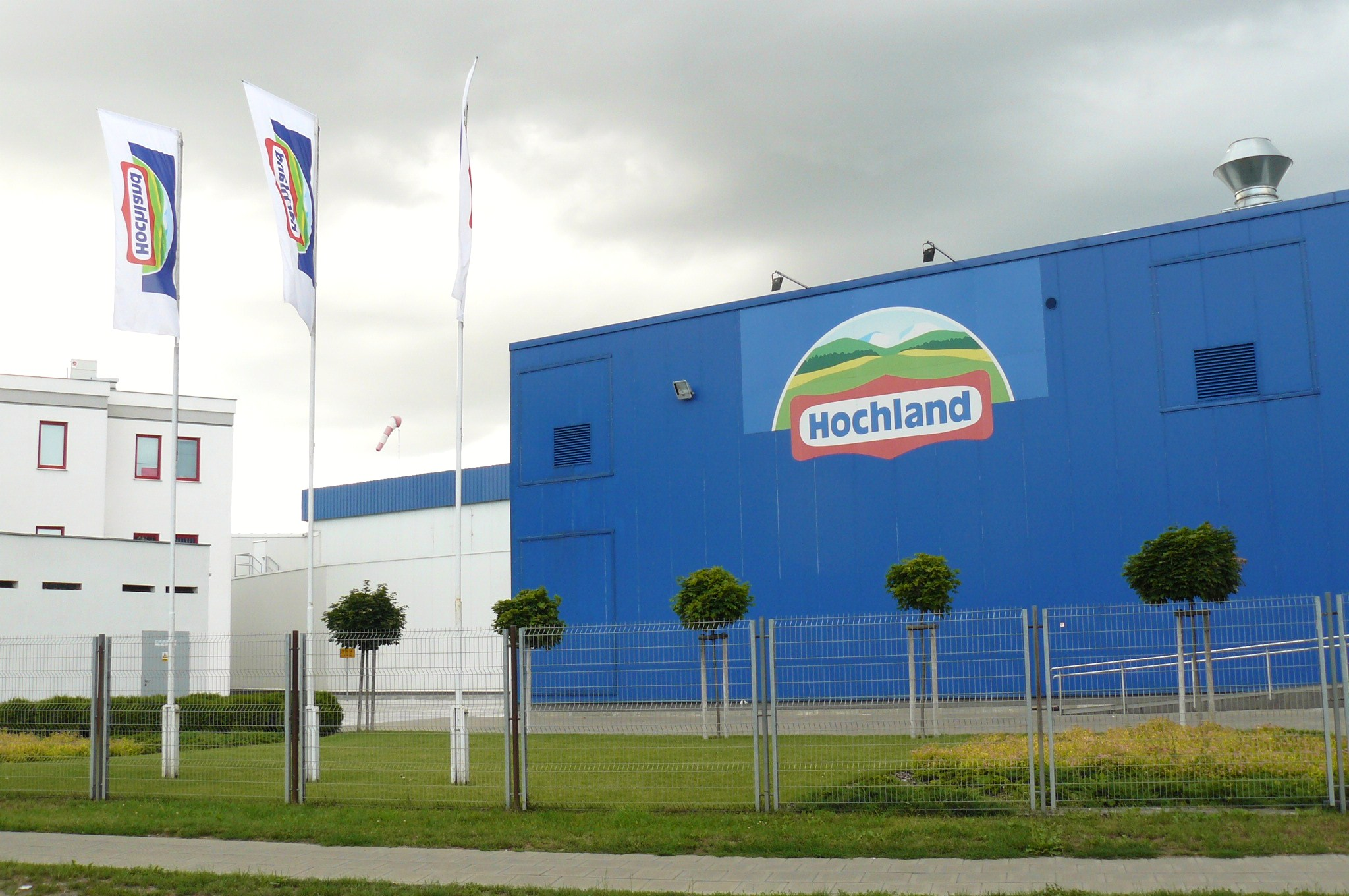 Hochland cheese Factory in Kazmierz.